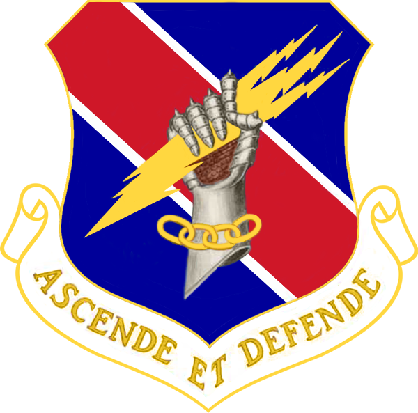 406th AEW